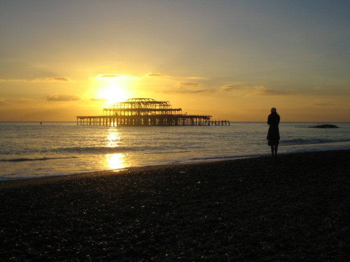 Photo of sunset in January 2006, West Pier, Brighton, UK